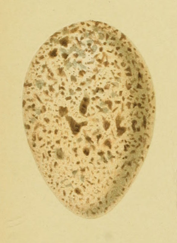 Egg of Pyrrhocorax pyrrhocorax (Red-billed Chough).